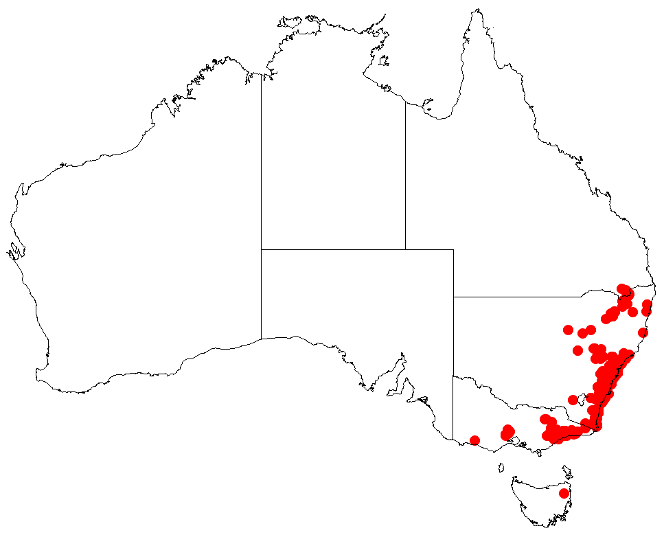 Bossiaea obcordata Occurrence data downloaded 11 September 2018 from AVH